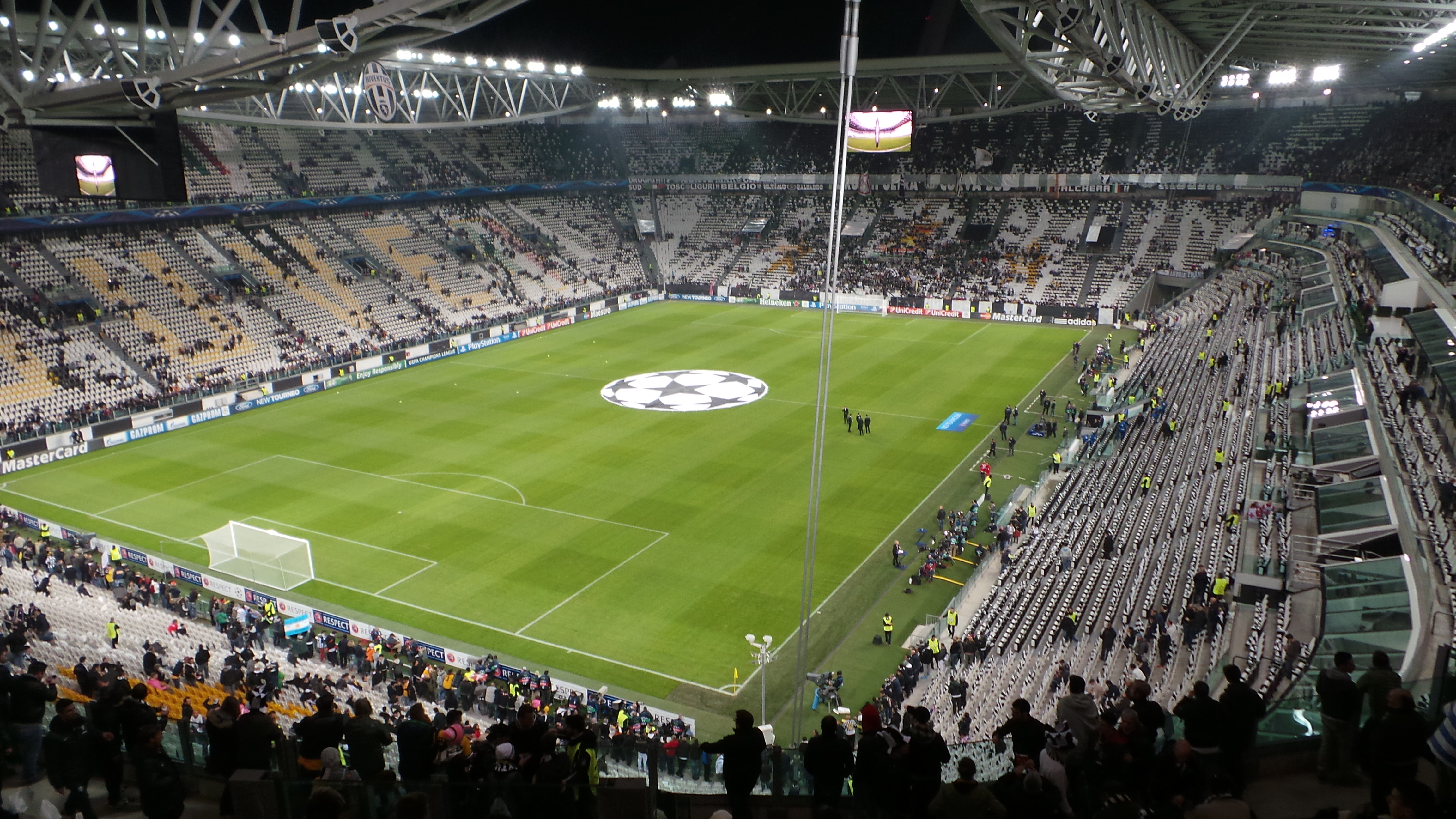 View of the Juventus Stadium in Turin, Italy, before Juventus FC vs Real Madrid CF game, 2013-14 UEFA Champions League group stage, 5th of November 2013.